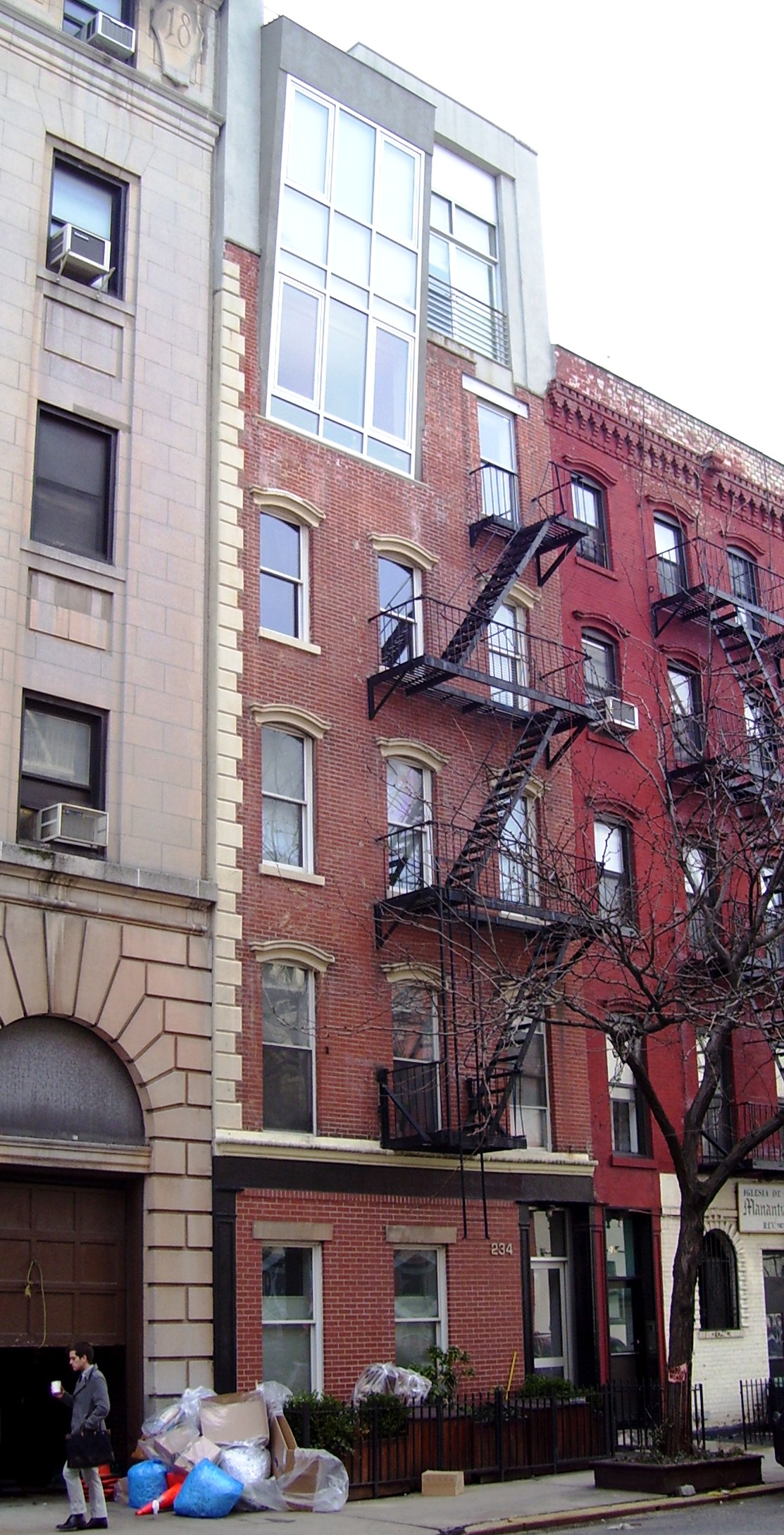 234 West 20th Street between Seventh and Eighth Avenues in the Chelsea neighborhood of Manhattan, New York City was originally built in 1929. (Source: NYC GIS map)